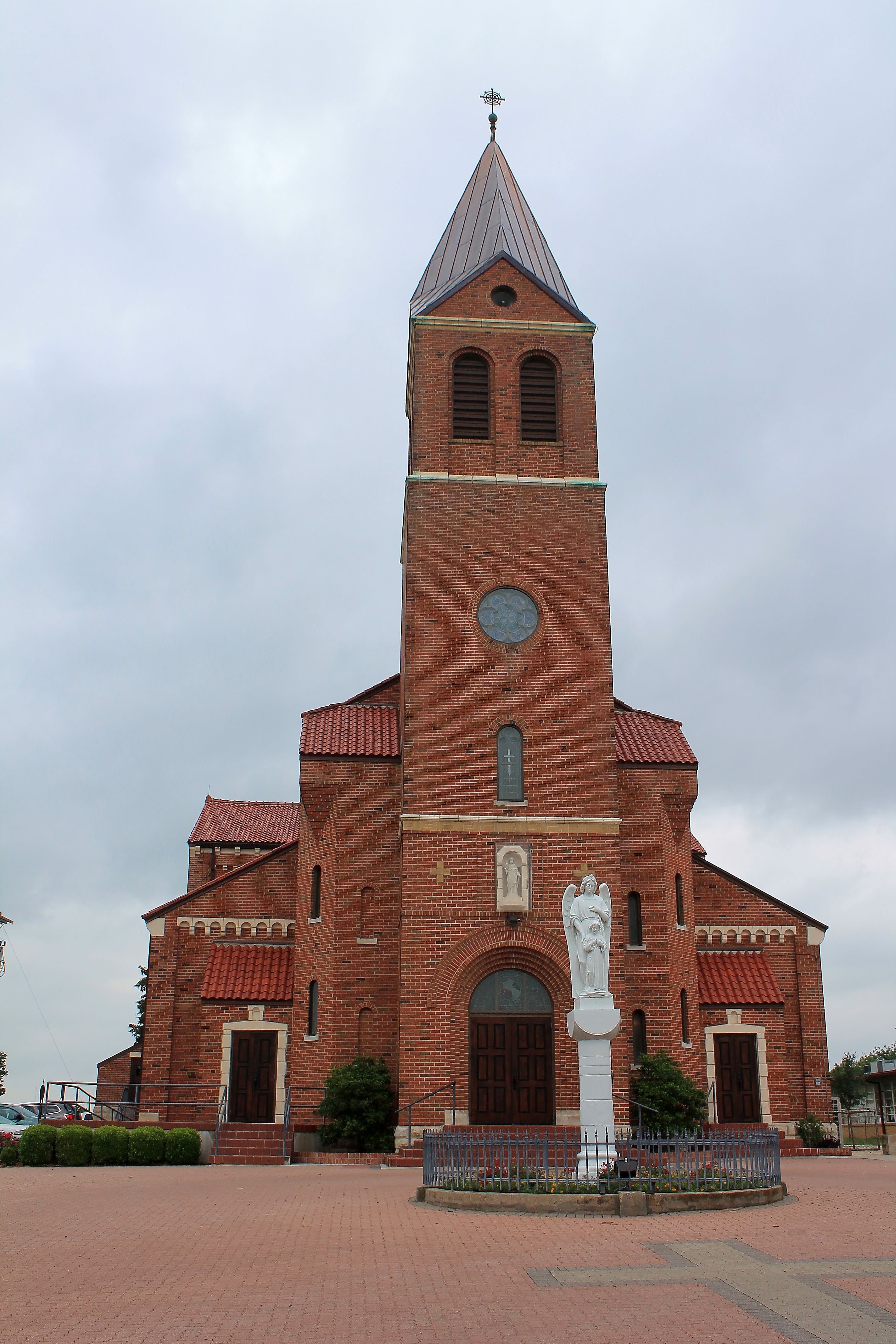 St. Peters Catholic Church in Lindsay, Texas